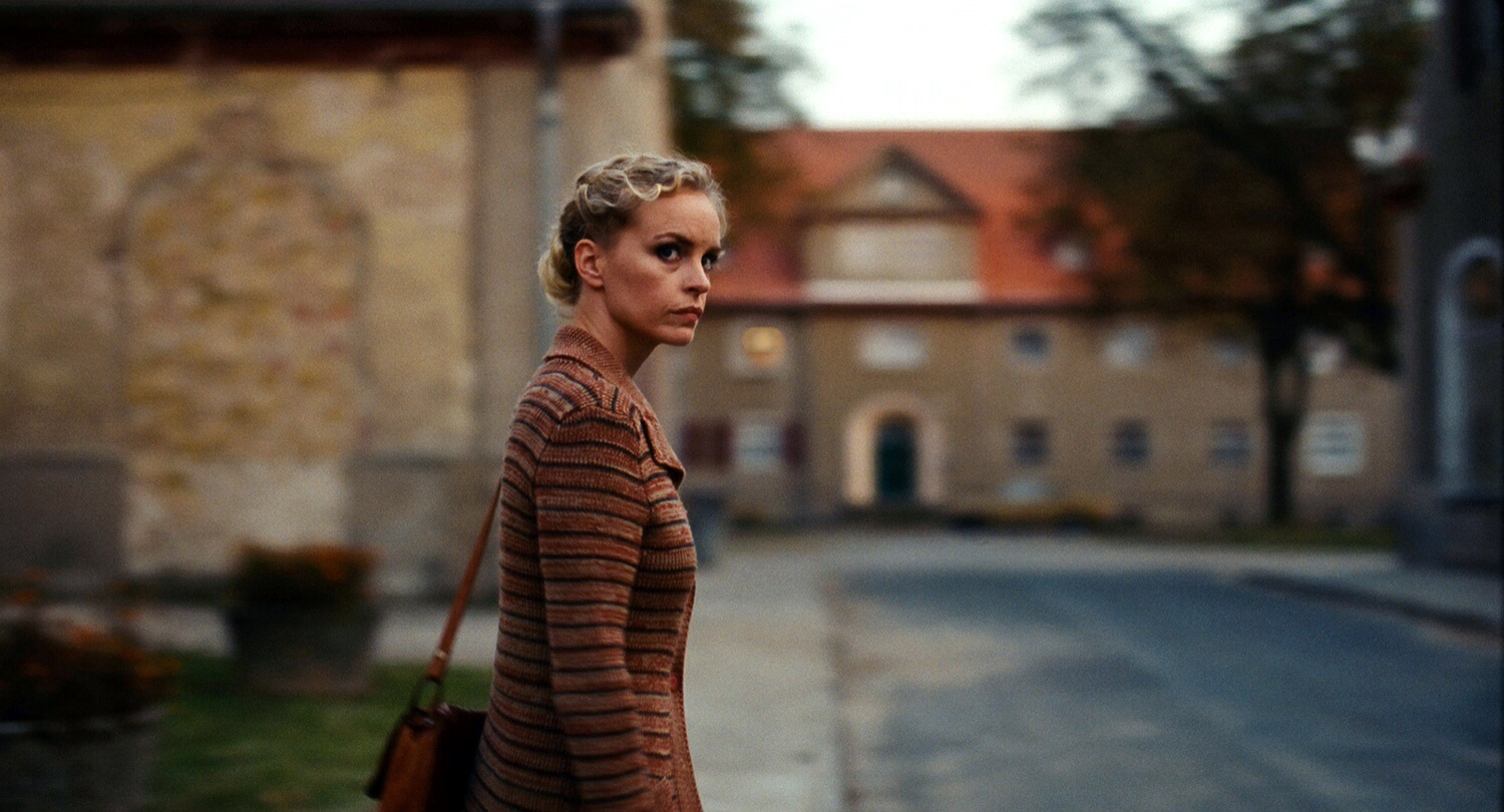 Nina Hoss in Barbara, 2012